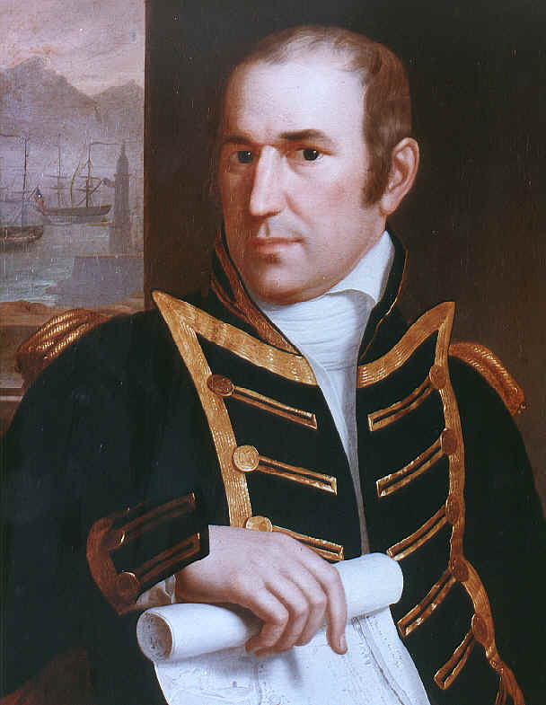 Commodore Edward Preble, painted before 1807.